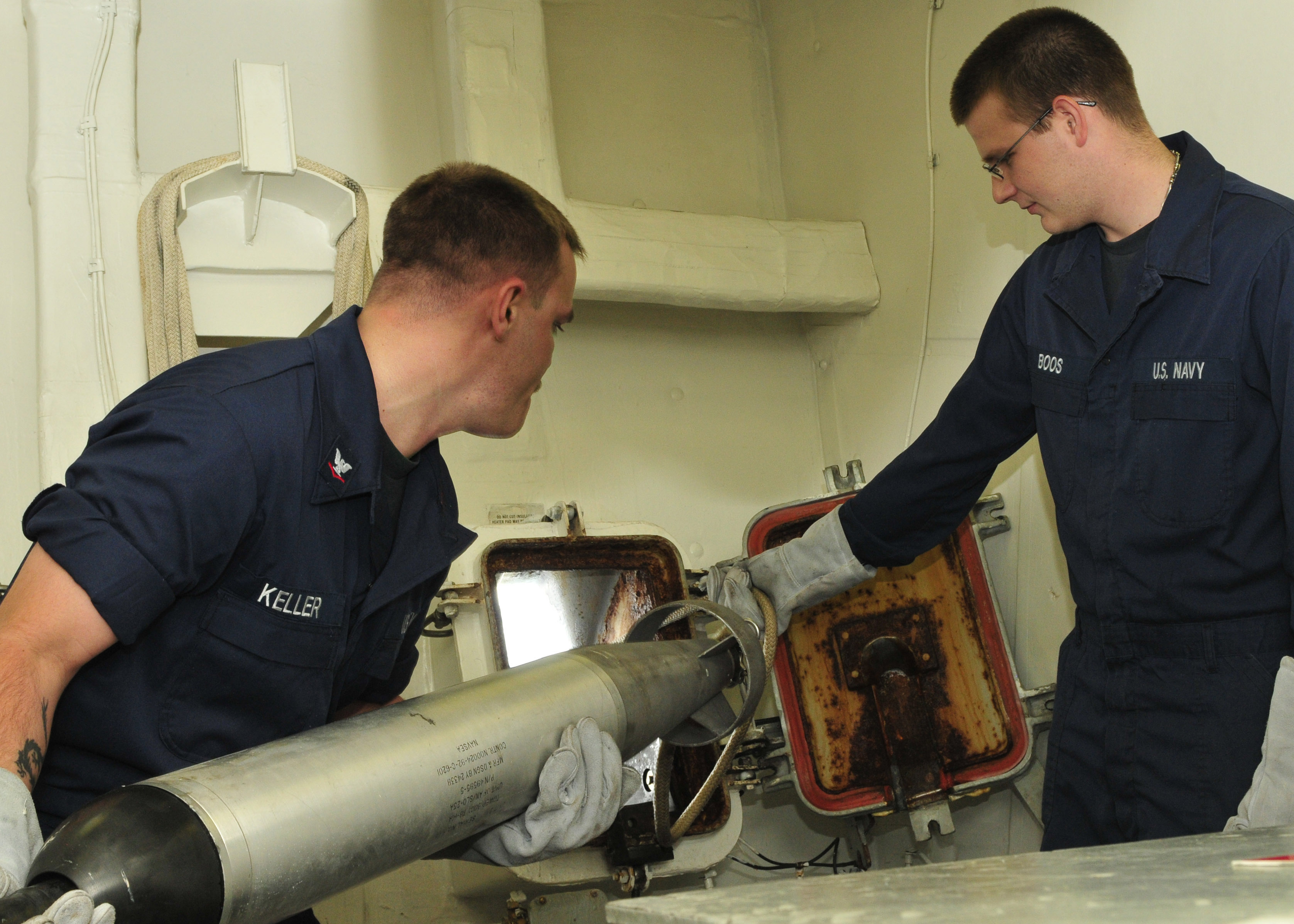 MEDITERRANEAN SEA (April 26, 2011) Sonar Technician (Surface) 3rd Class Karl Keller, left, and Sonar Technician (Surface) Seaman James Boos launch a Nixie torpedo through the transom door aboard the guided-missile destroyer USS Barry (DDG 52). Barry is on deployment conducting maritime security operations and theater security cooperation missions in the U.S. 6th Fleet area of responsibility. (U.S. Navy photo by Mass Communication Specialist 3rd Class Jonathan Sunderman/Released)